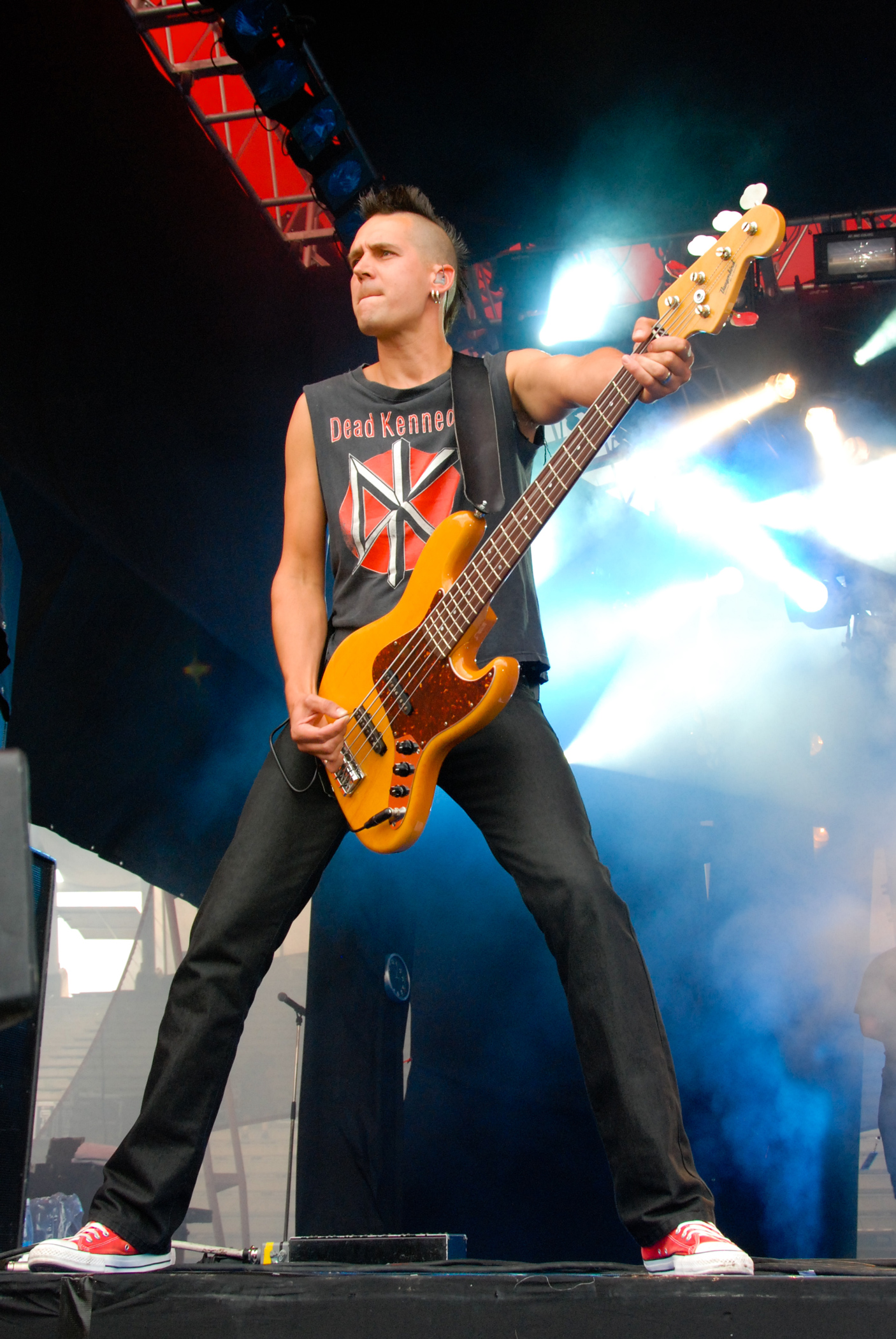 Bassist Kimmo Kurittu of Maj Karma performing at the Ilosaarirock festival on the 14th of July 2007 in Joensuu, Finland.